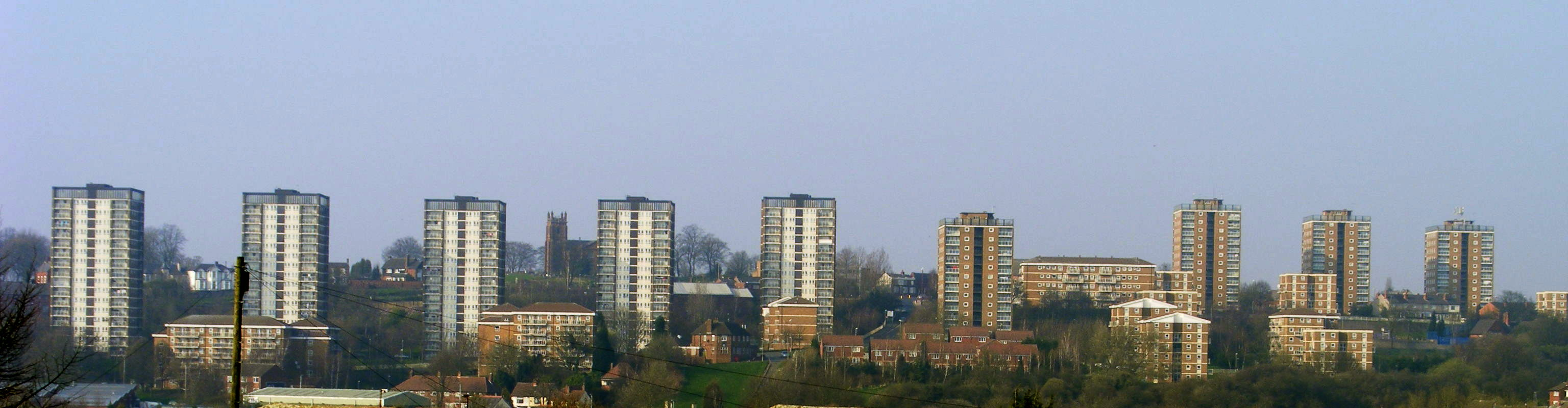 The Brierley Hill flats. Cropped and reduced haze with curves tool in the GIMP.